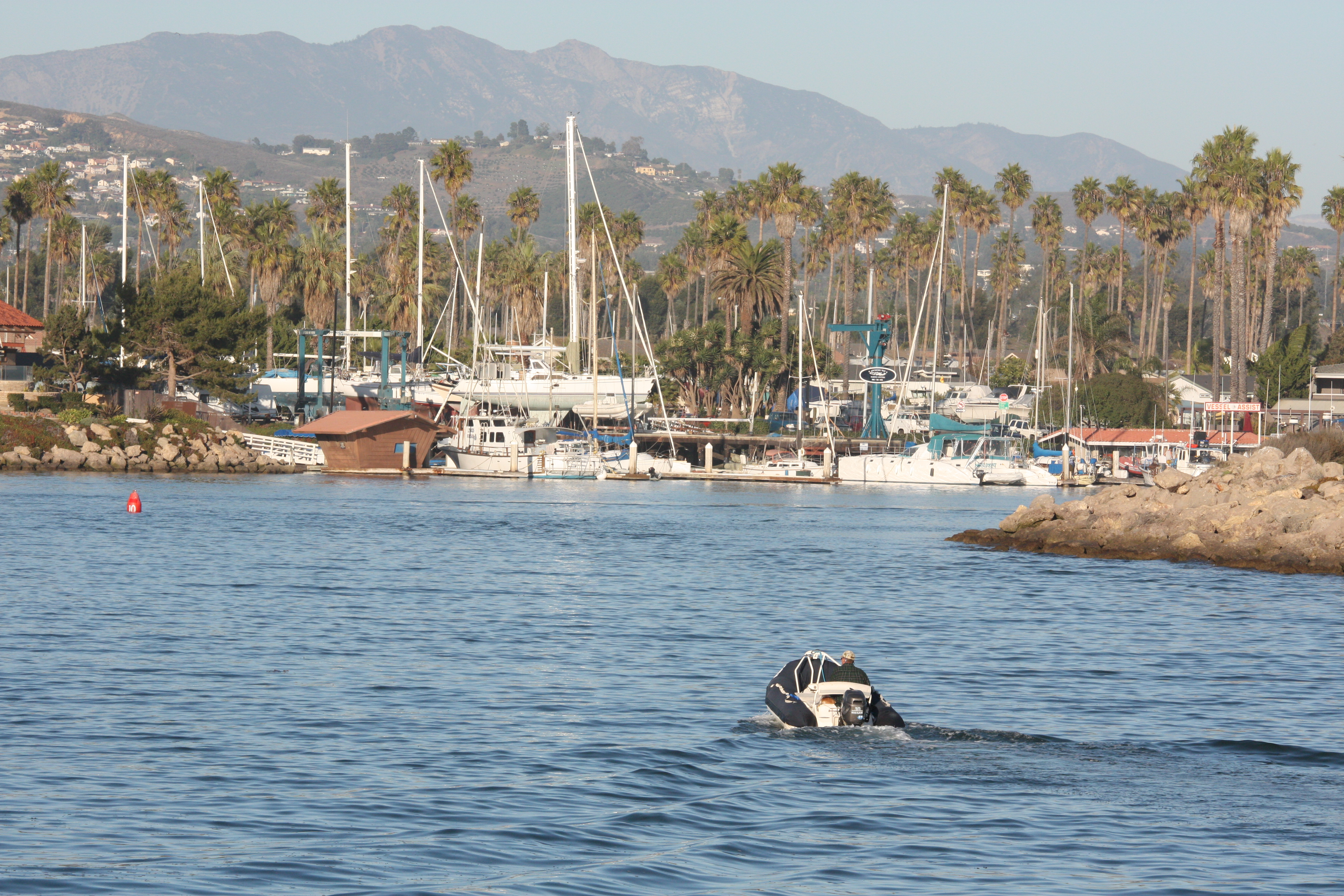 Boat entering Ventura Harbor — in Ventura, Southern California. Mountains of the Transverse Ranges system in backround.